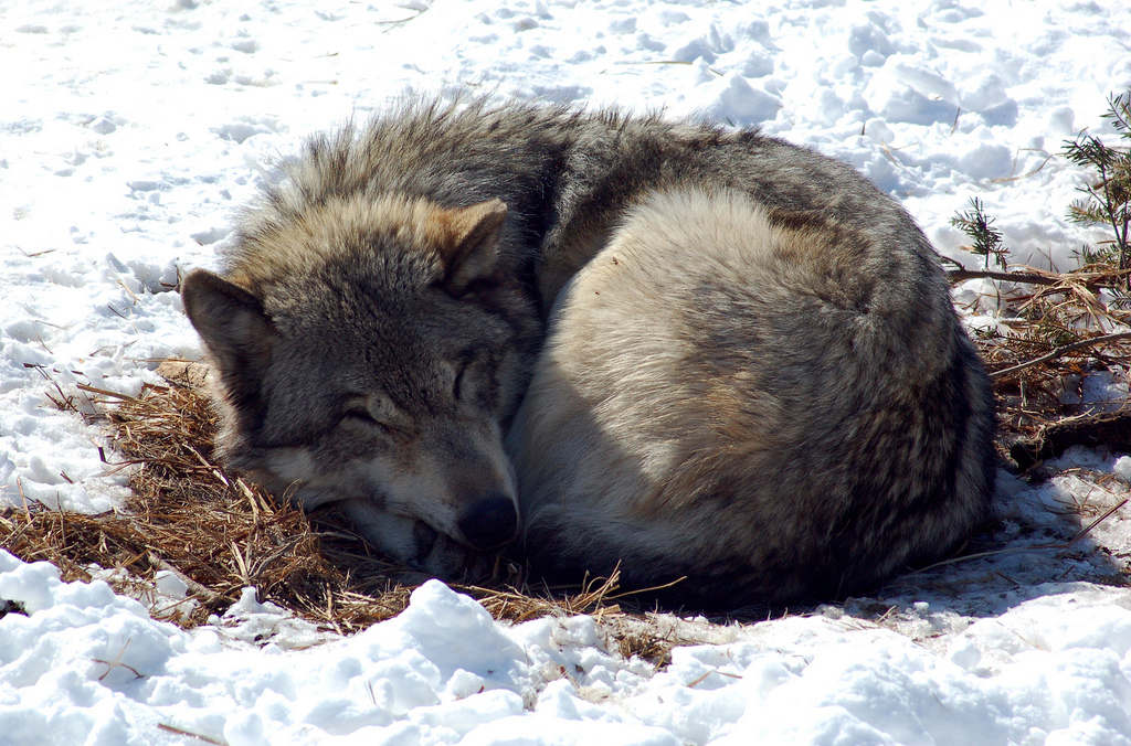 gray wolf